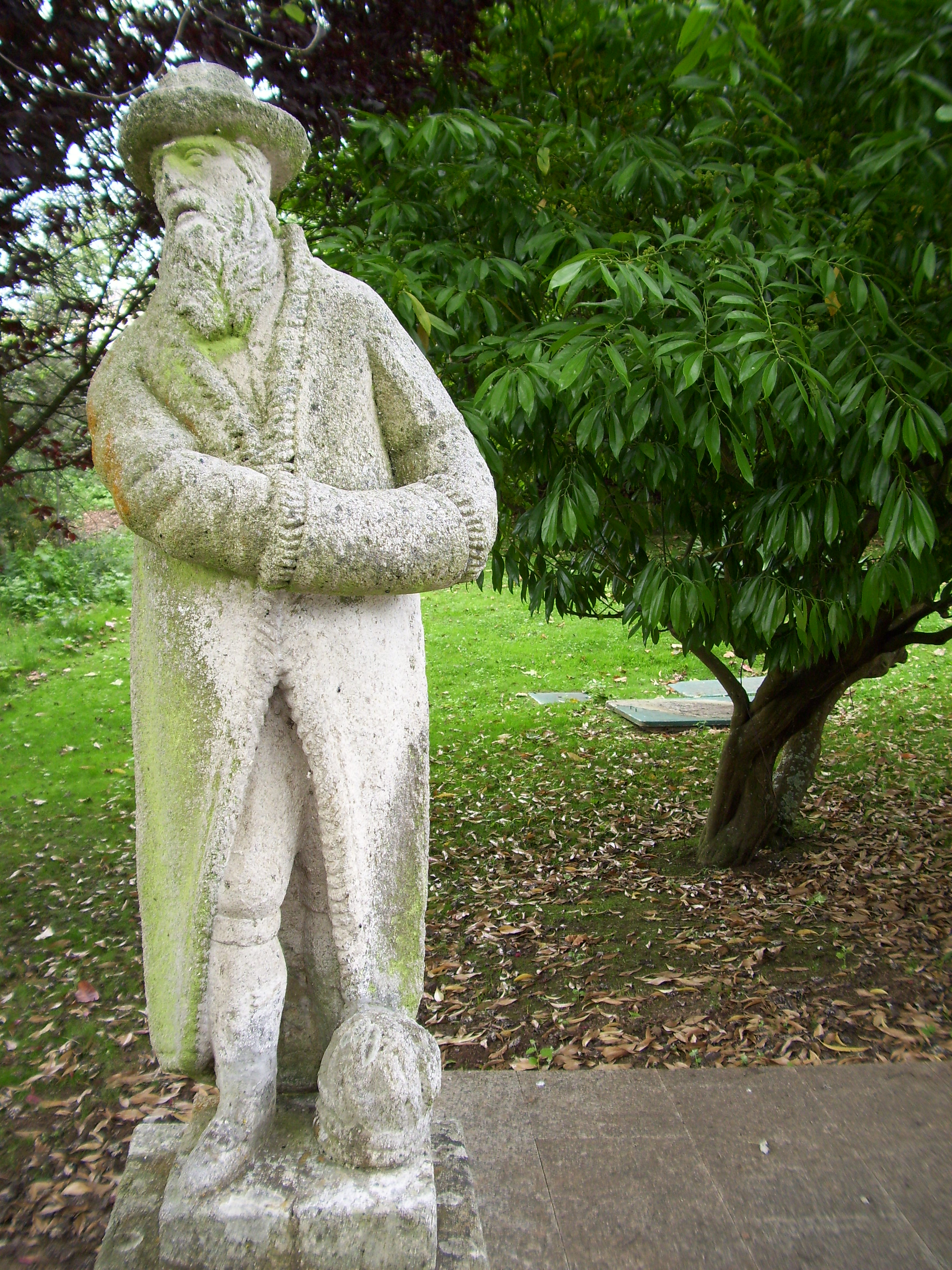 Allegory of winter at the pond of Lóngora manor (Liáns, Oleiros).